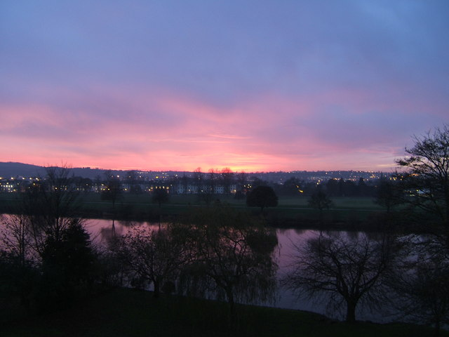 North Inch